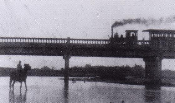 Train of Chuo Tramway.